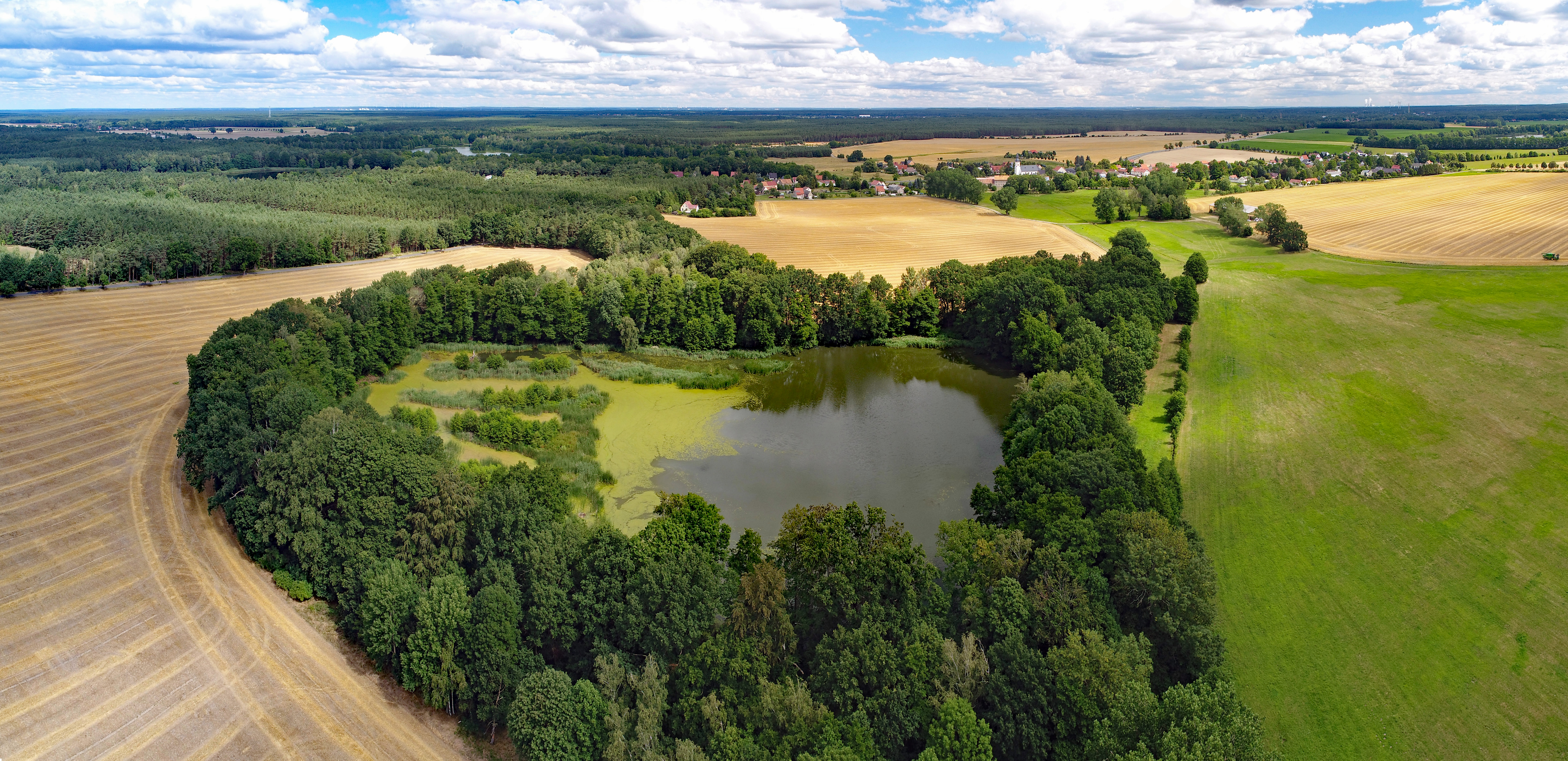 Erlernteich (Bernsdorf, Saxony, Germany)